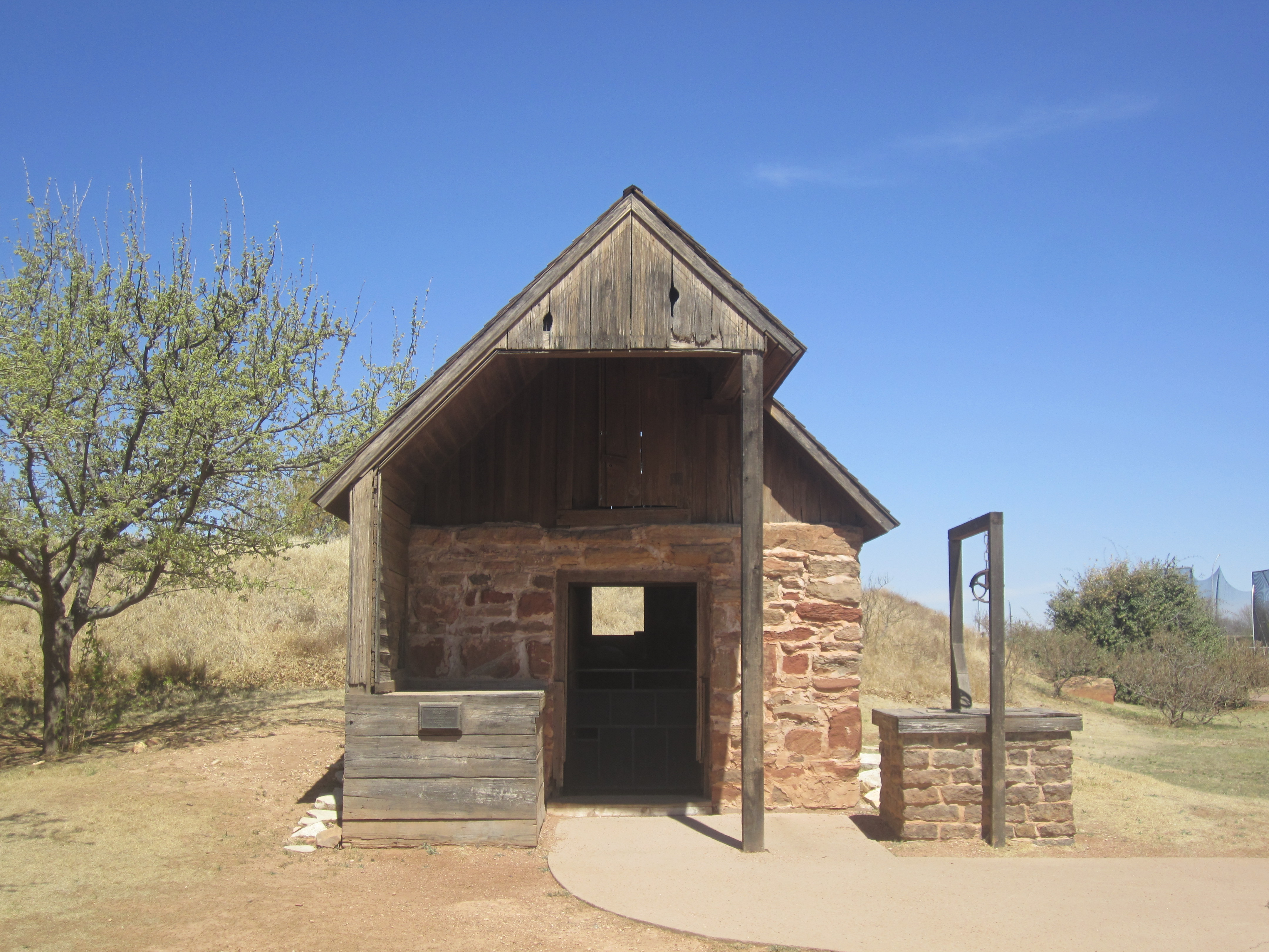 Waggoner Ranch Commissary — at the National Ranching Heritage Center. At Texas Tech University in Lubbock, Texas.